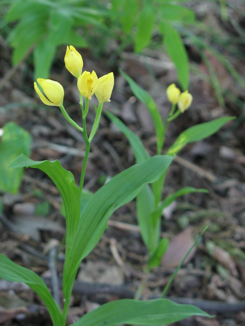 Photograph of Cephalanthera falcata.